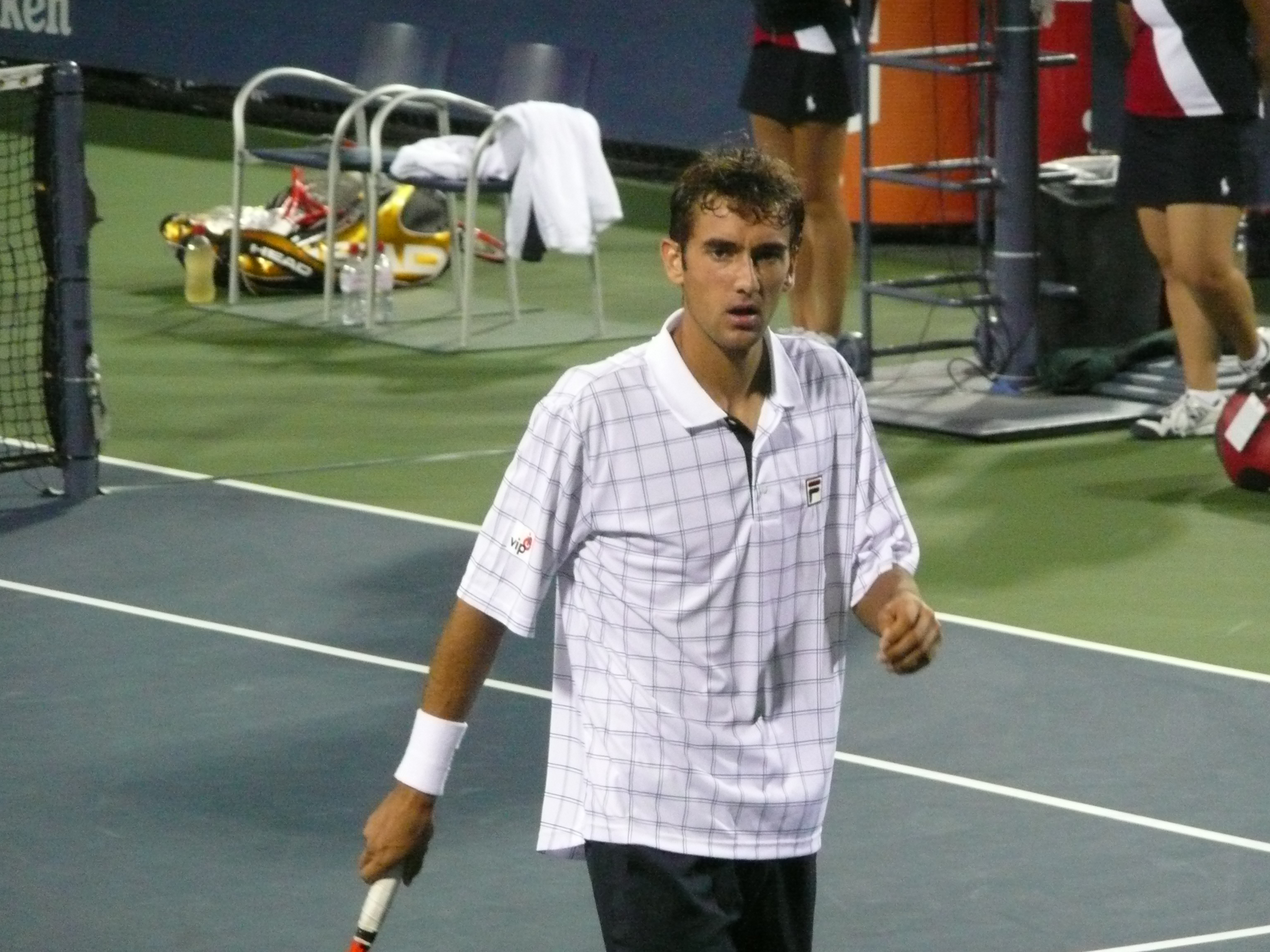 Marin Čilić at the 2009 US Open